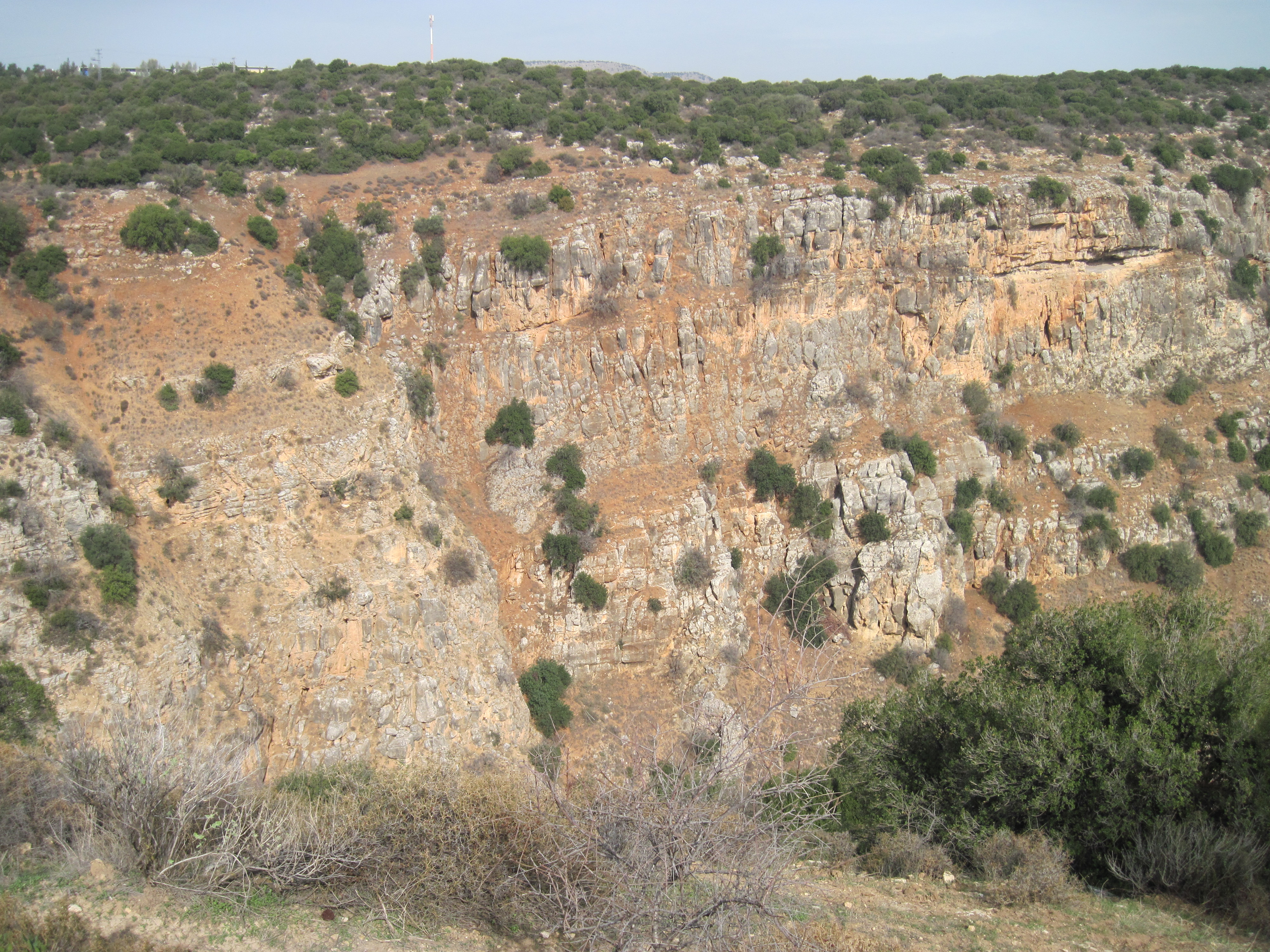 Kedesh Stream, view from Metzudat Koach